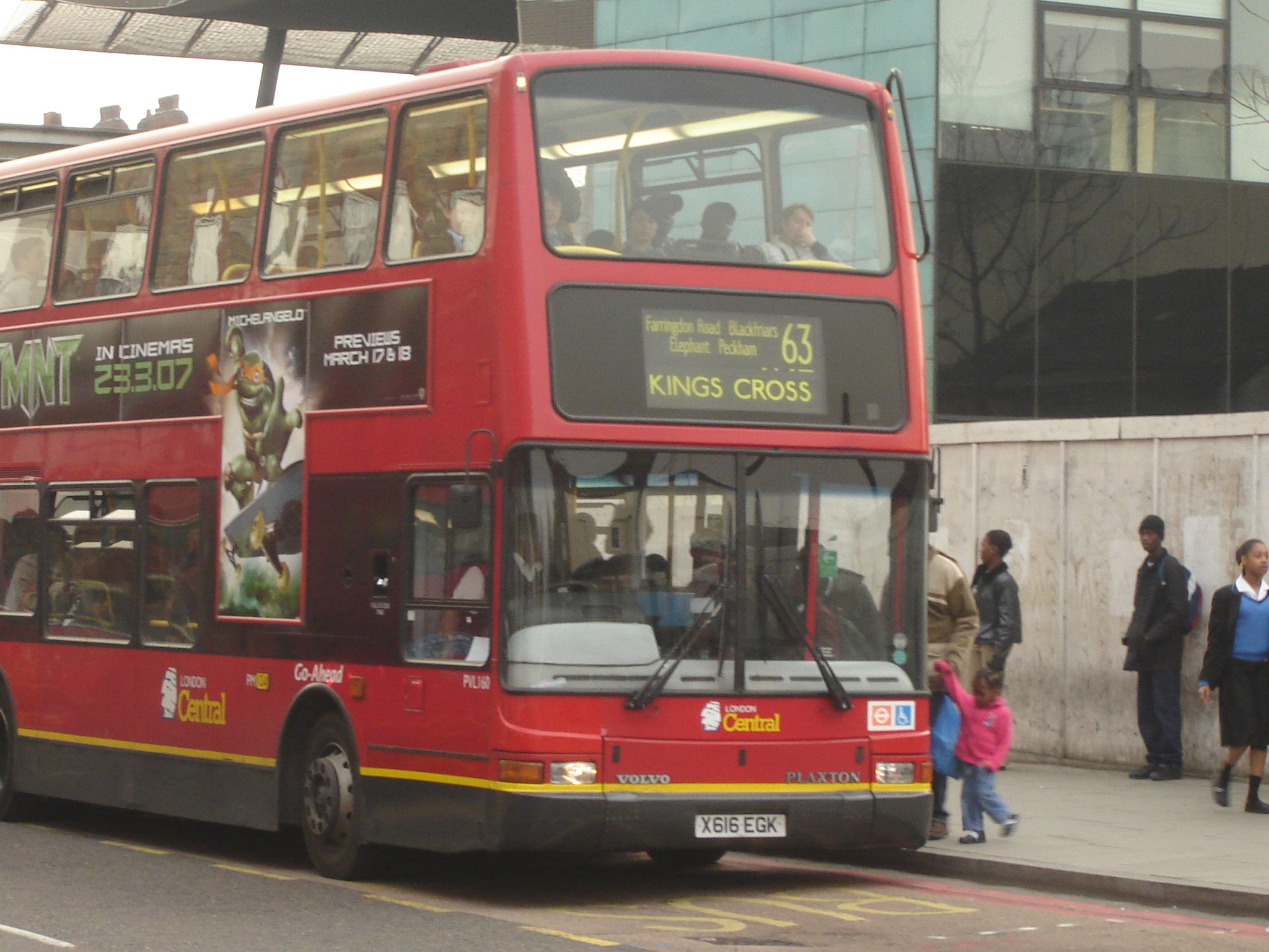 London Central PVL160 (X616 EGK), a Volvo B7TL/Plaxton President, on London Buses route 63.